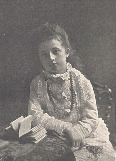 The child Archduchess Maria Dorothea of Austria